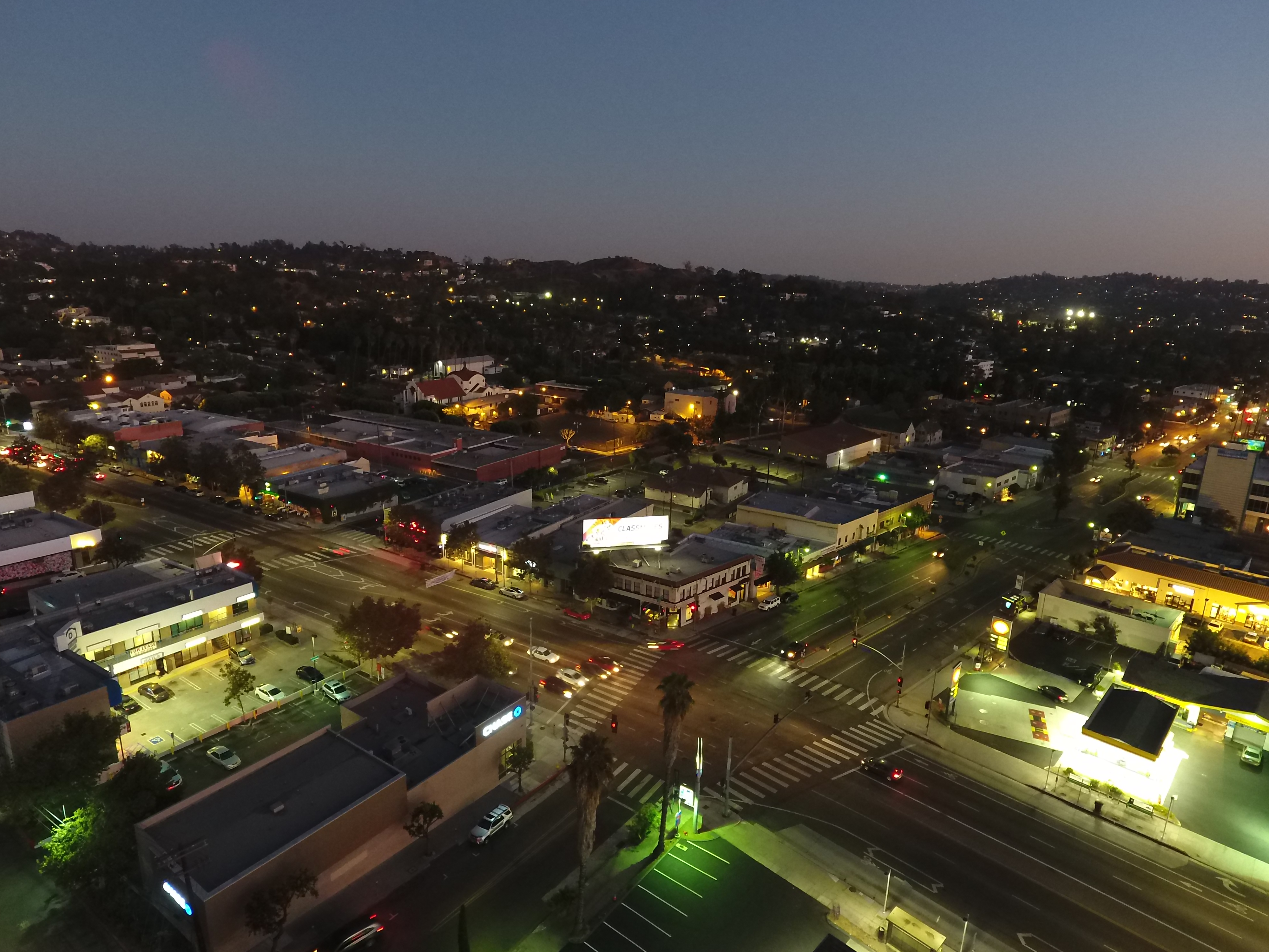 Intersection of Eagle Rock Blvd & Colorado Blvd at dusk